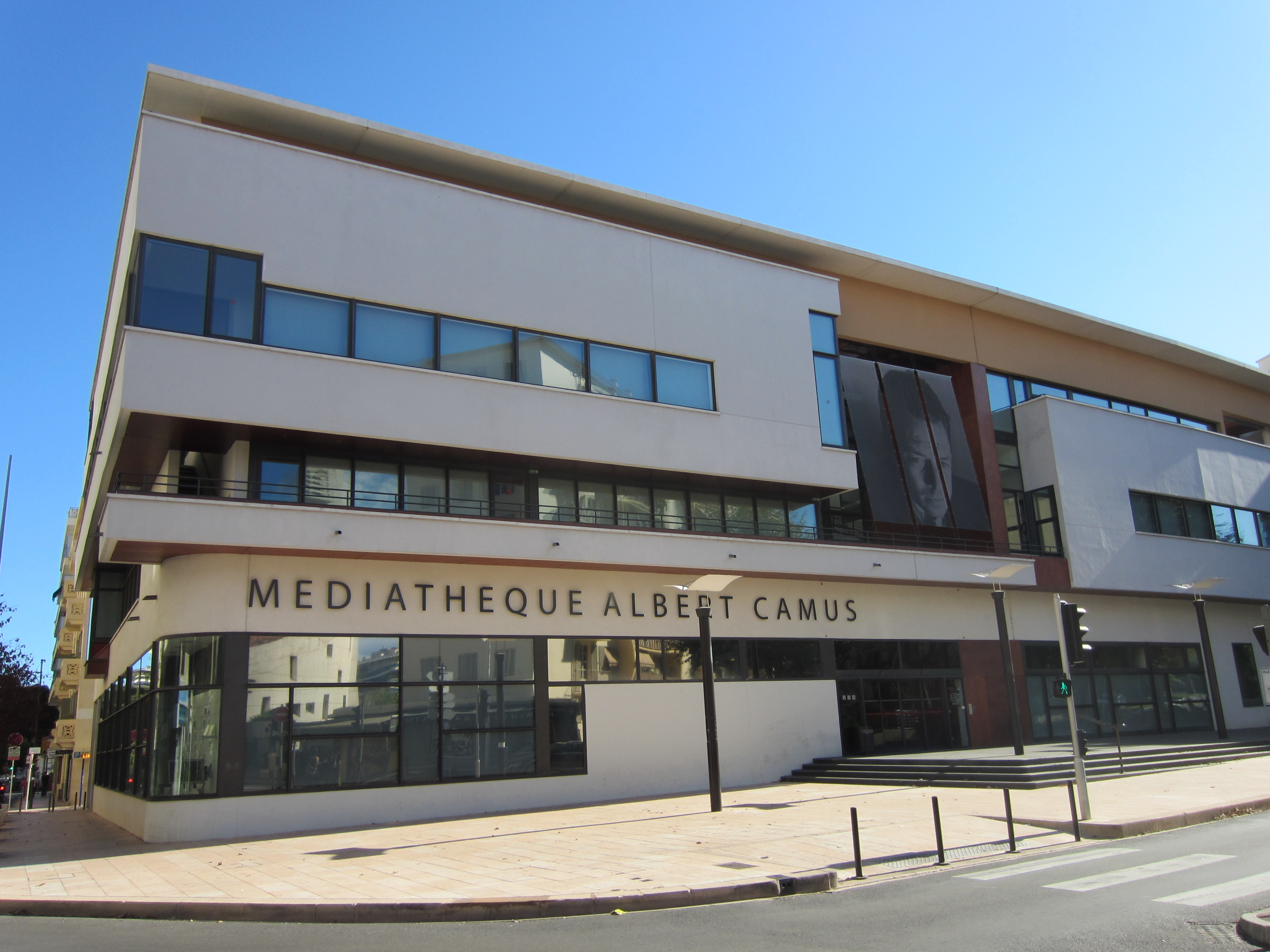 Description mediatheque albert camus Antibes Date22 October 2011Sourcemon appareil photoAuthorAimelaimePermission(Reusing this file) mediatheque albert camus Antibes